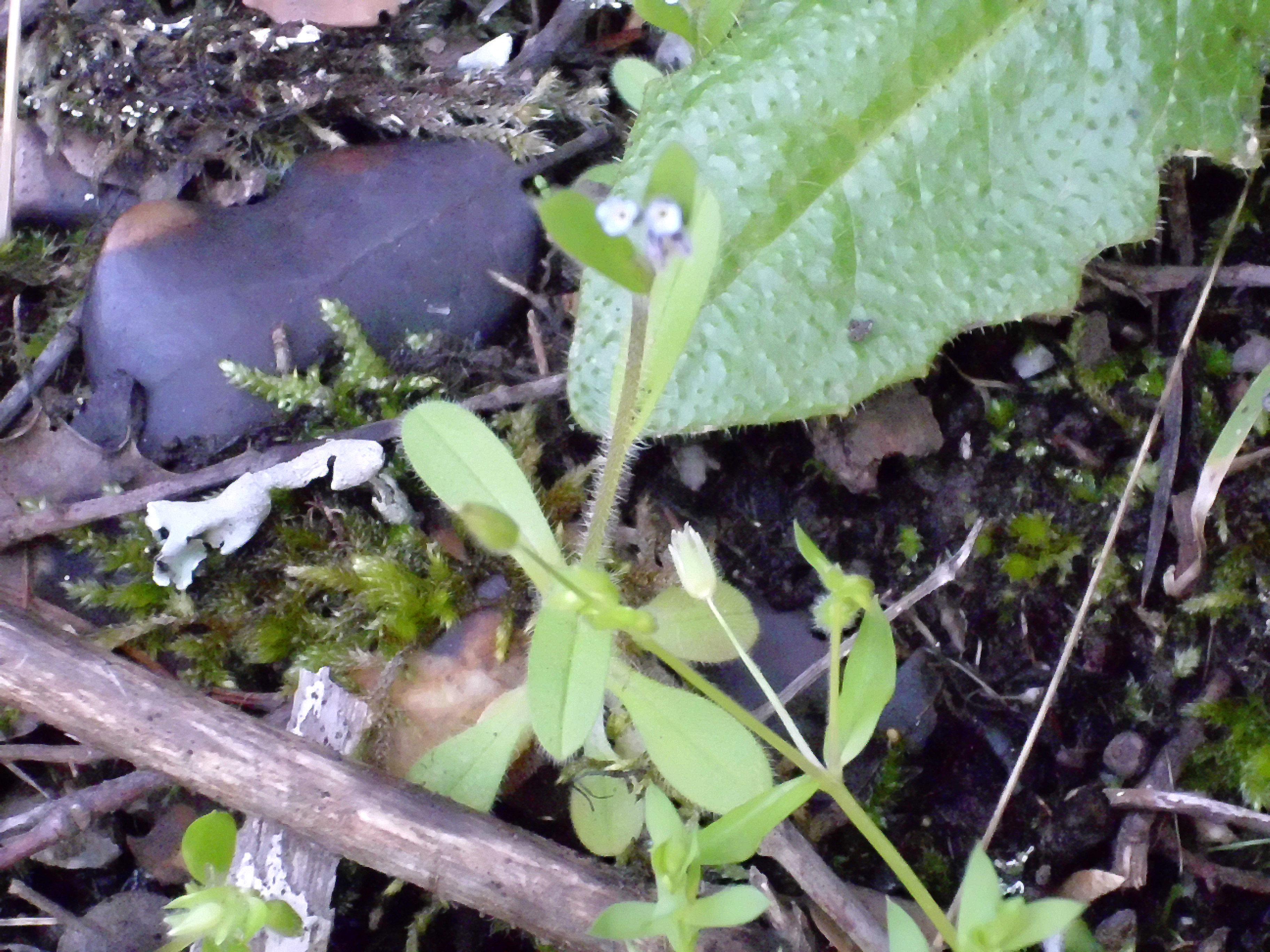 Myosotis debilis habit, Sierra Madrona, Spain